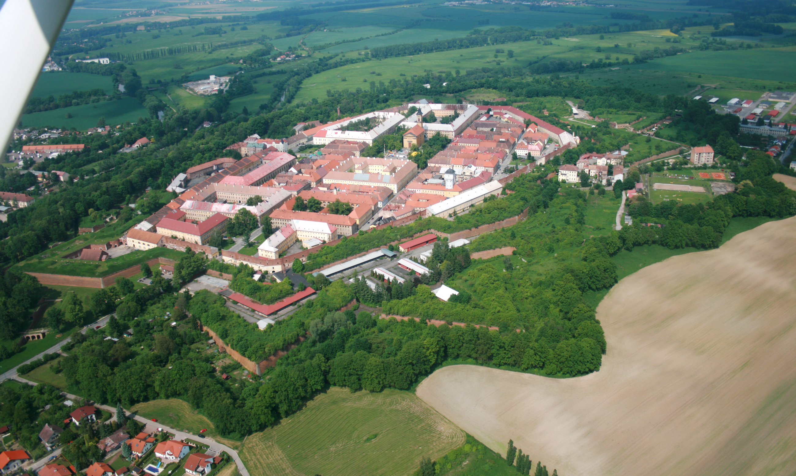 Fortress Josefov near of Jaroměř from air, eastern Bohemia, Czech Republic